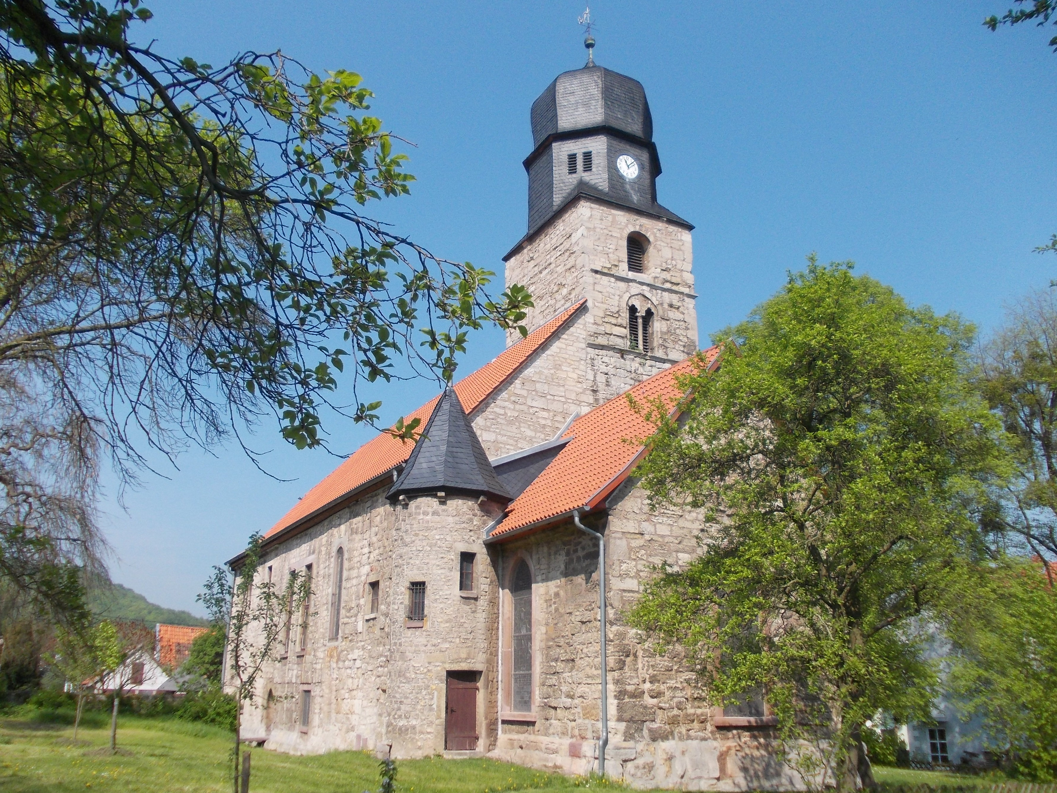 St. Boniface Church in Grossfurra (Sondershausen, district: Kyffhäuserkreis, Thuringia)